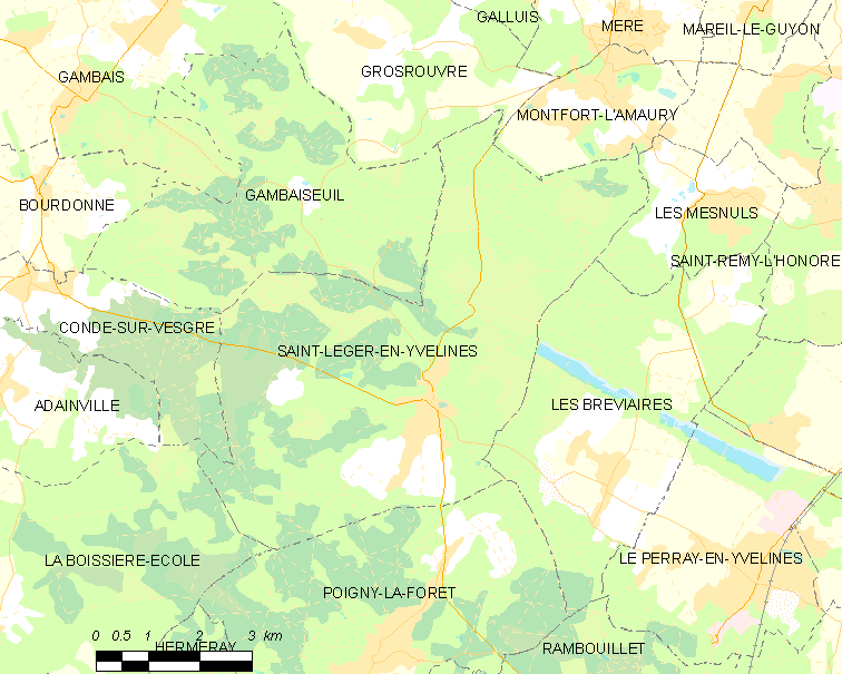 Map of French municipality Saint-Léger-en-Yvelines